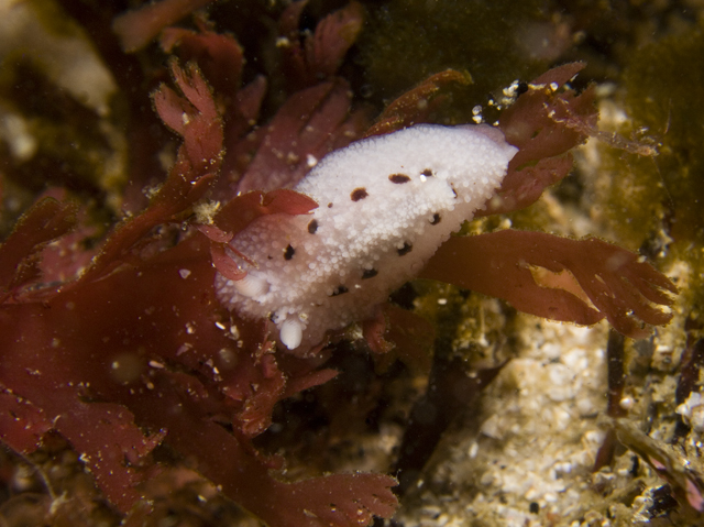 Found at Coral Gardens on the Atlantic Coast of the Cape Peninsula. Around 1cm in length. 12m deep.